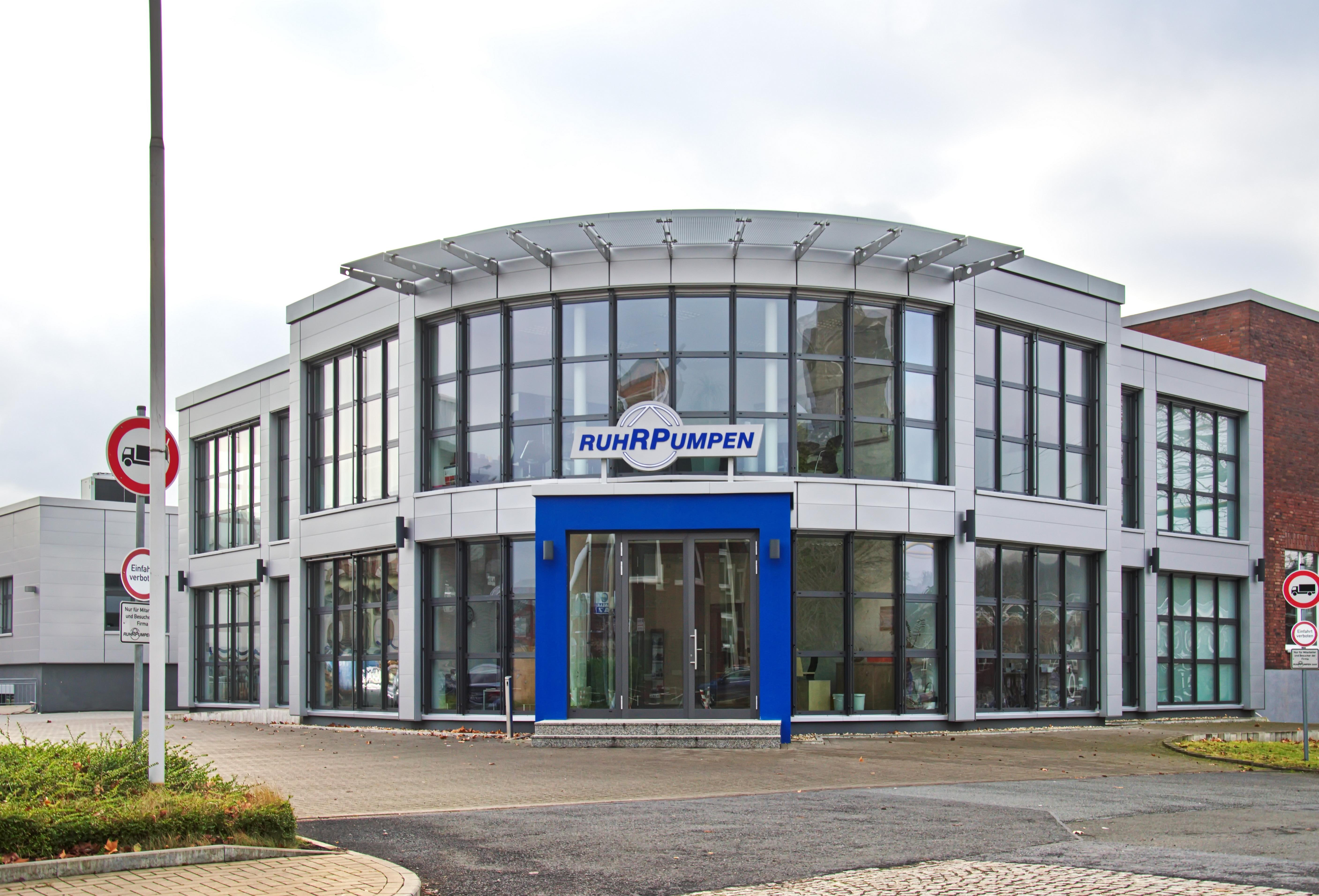 Headquarter of Ruhrpumpen in Witten, Germany